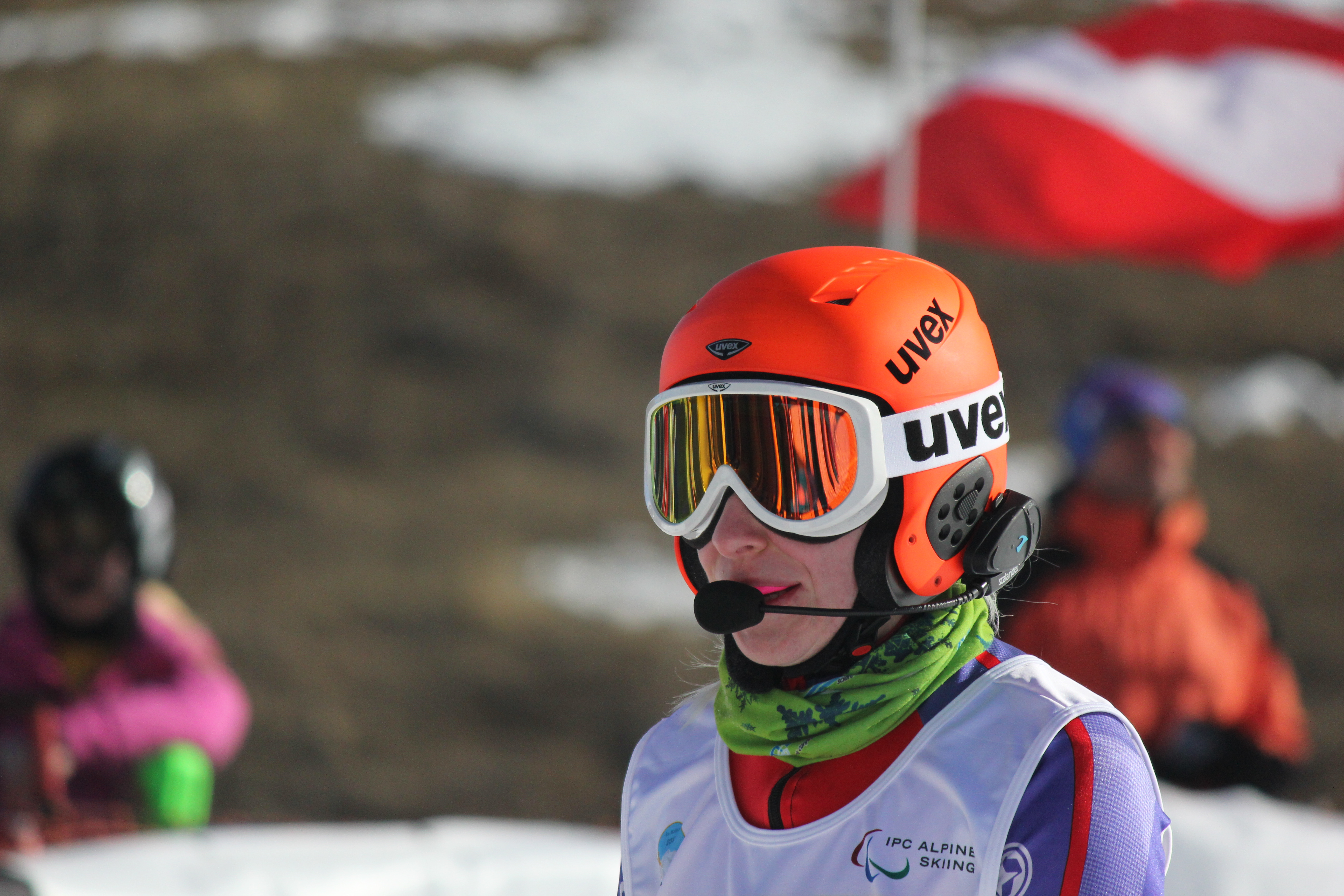 2013 IPC Alpine World Championships at La Molina in Spain. Day 2. Super-g final for women's visually impaired. skier Kelly Gallagher.